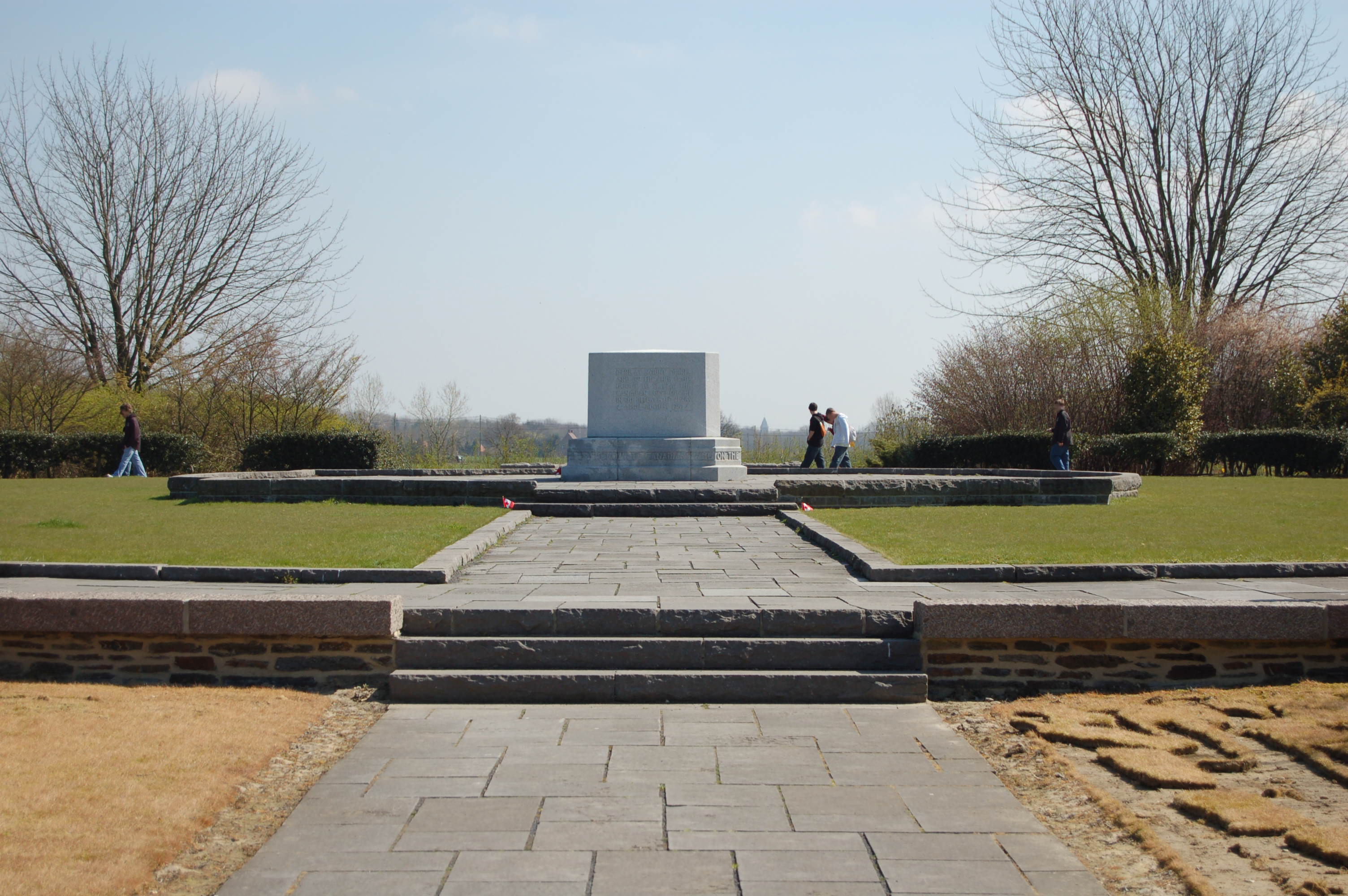 looking eastward on the top terrace of the Canadian Hill 62 (Sanctuary Wood) Memorial, afternoon of April 7th 2007